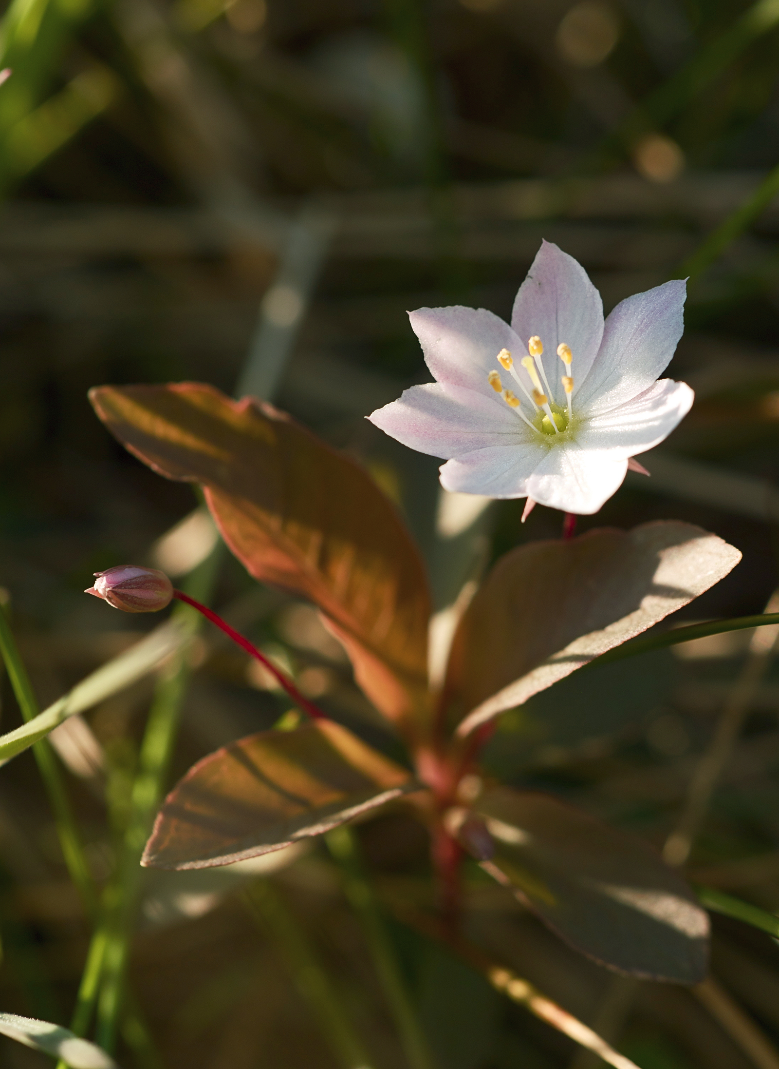 Arctic Starflower (Trientalis europaea), Kristiansund, Norway